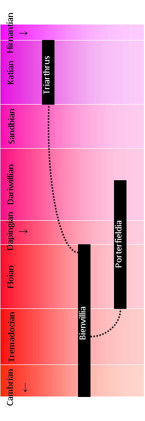 Cladogram showing the assumed relationships and known temporal distribution of the genera Bienvillia, Porterfieldia and Triarthrus, family Olenidae. Based on Ludvigsen, R.; Tuffnell, P.A. (1983). "A revision of the Ordovician olenid trilobite Triarthrus". Geological Magazine 120 (6): 570, figure 3.